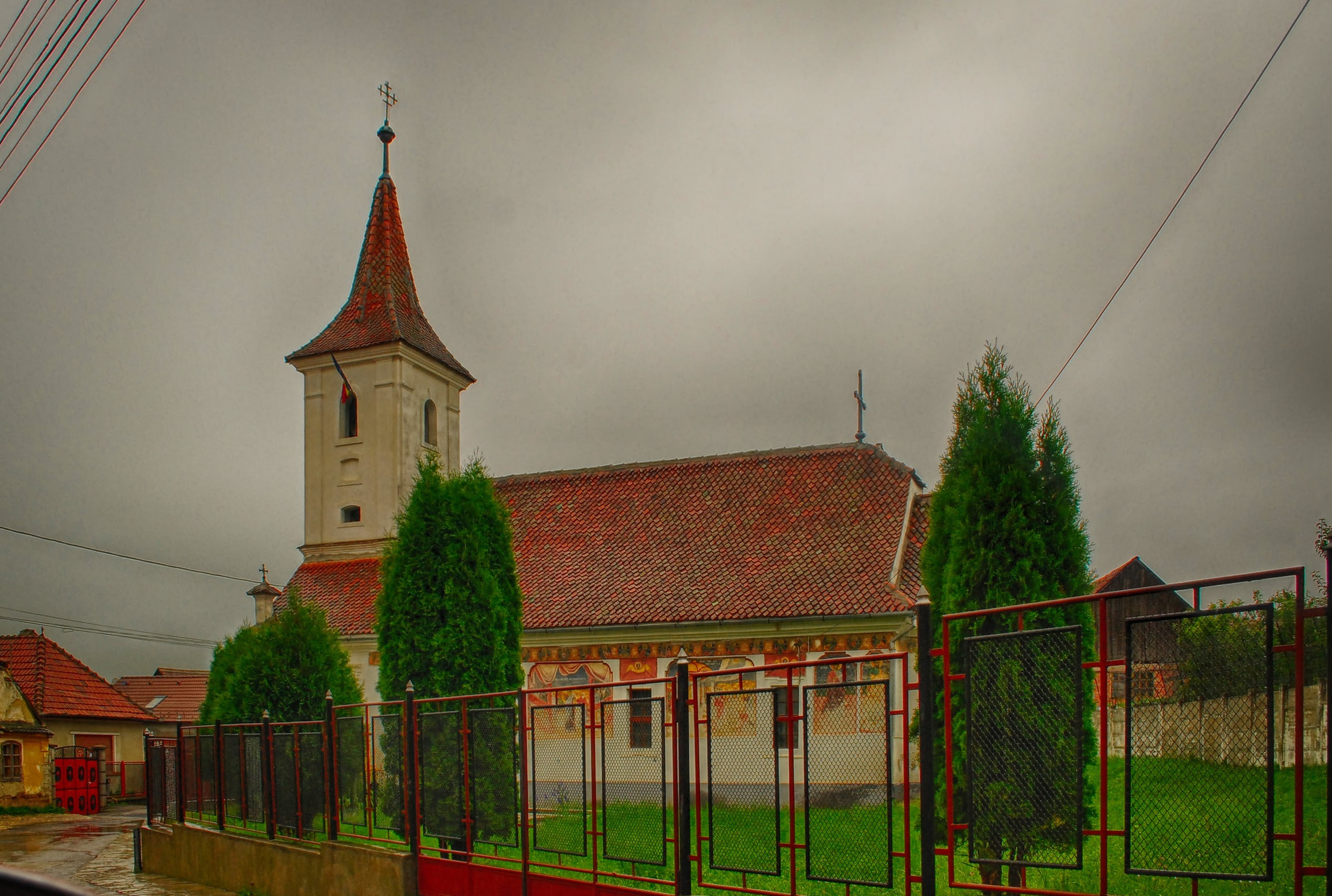 Saint Nicholas' church in Sânpetru, Brașov County, RomaniaRomână: Biserica „Sfântul Nicolae” din Sânpetru, județul Brașov, România